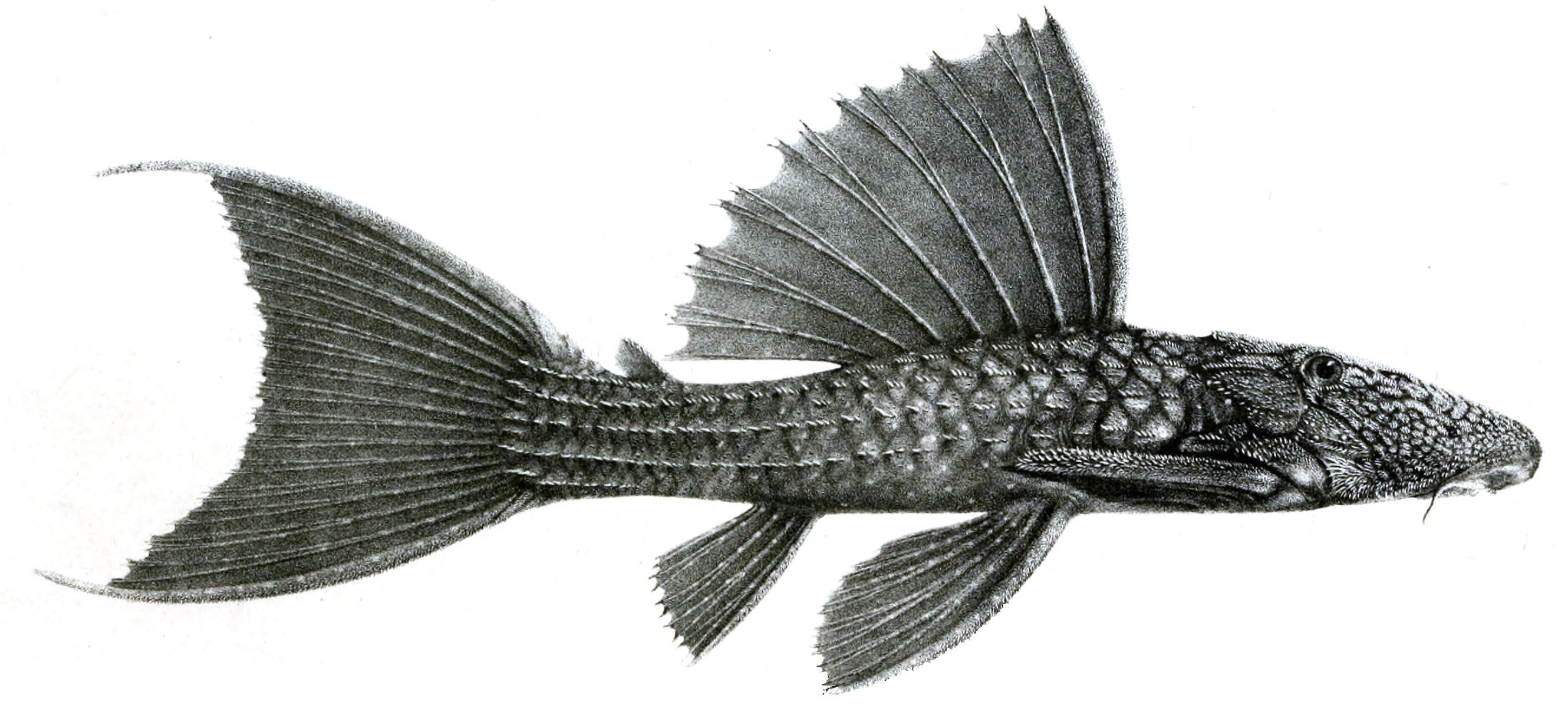 Chætostomus fordii = Pseudacanthicus fordii (Günther, 1868) from lateral and ventral